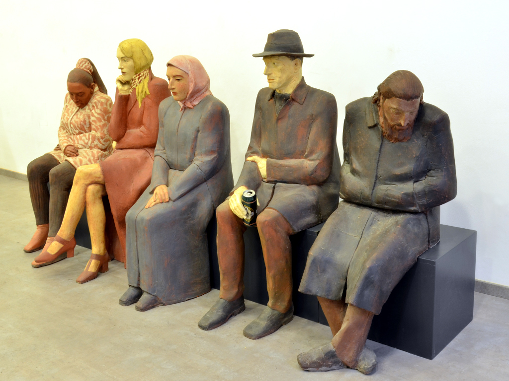 Sculptures and installation by Ludmila Seefried-Matějková, Metro, polychrome burnt clay (2001-02)